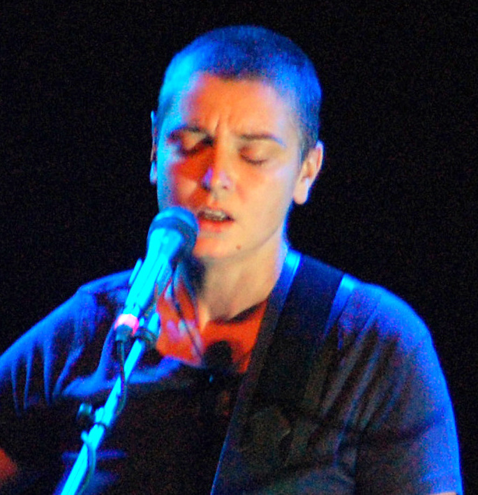 Sinéad O'Connor at The Music In My Head 2008 in The Hague